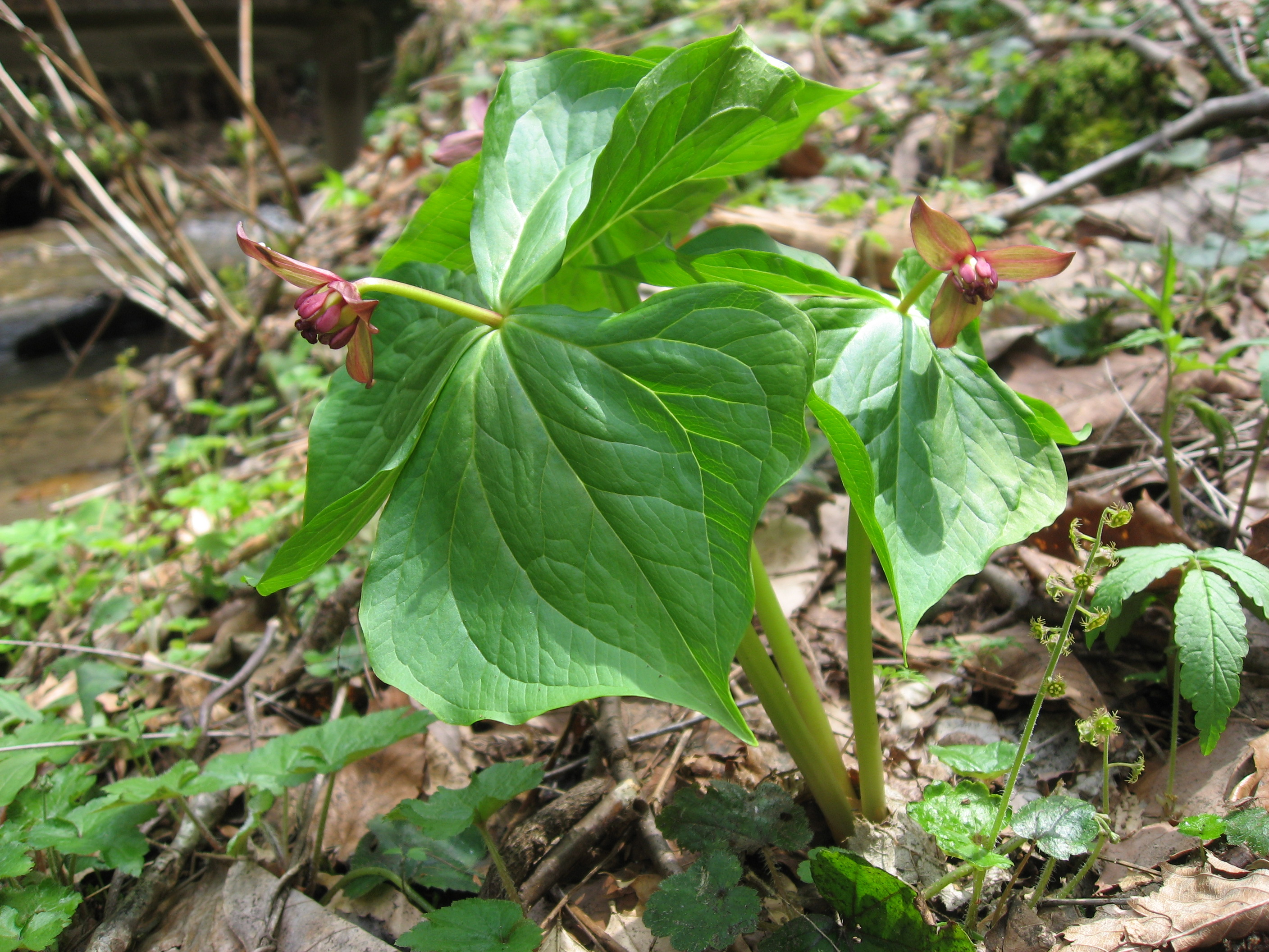 Trillium smallii, Aizu area, Fukushima pref., Japan